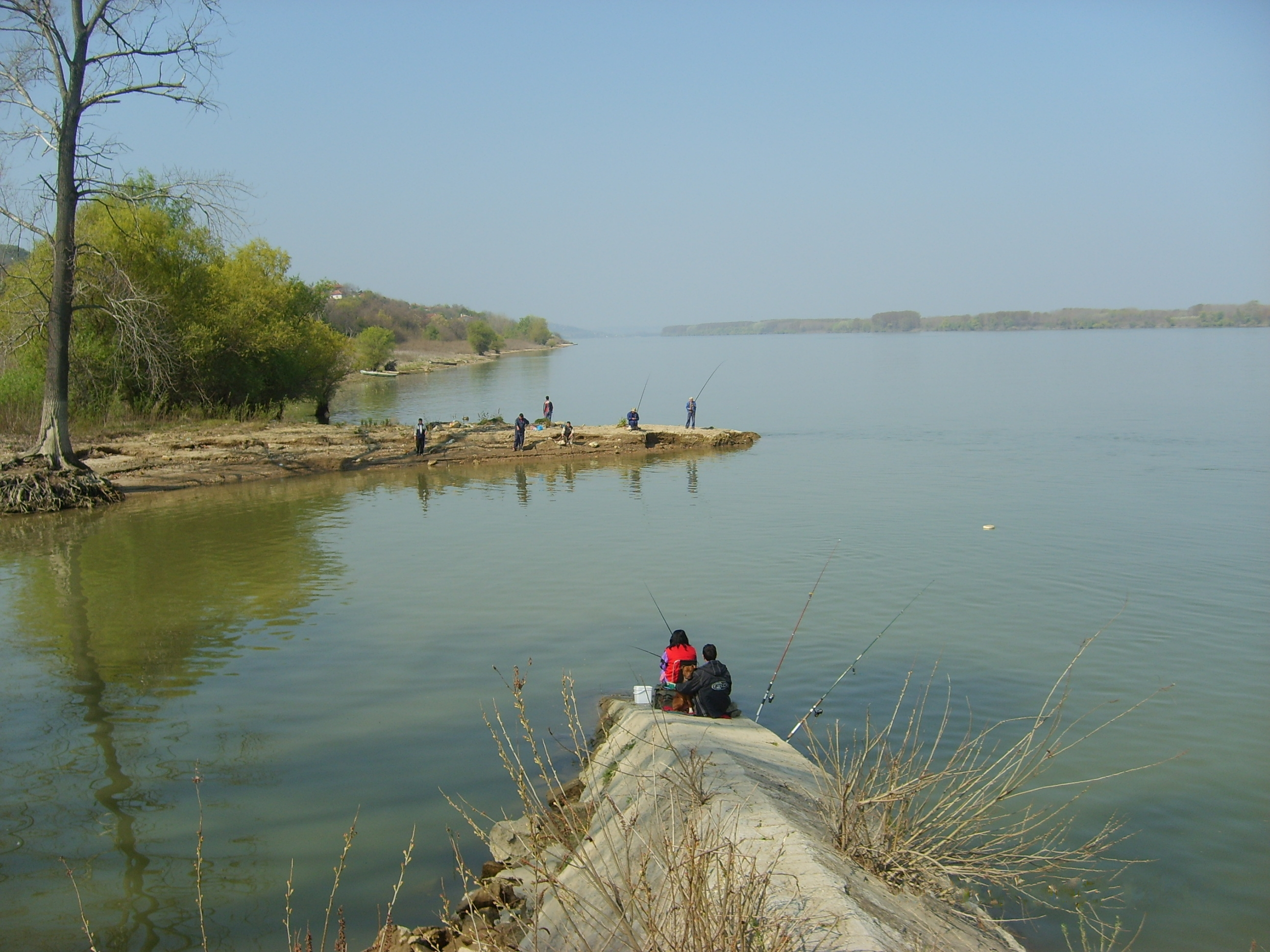 Fishing in river Danube